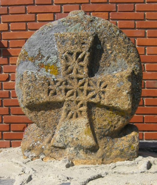 Middle aged funerary estele in Vidrieros (Palencia, Castile and León)